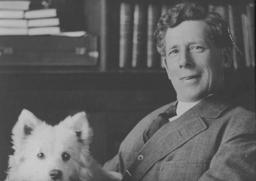 great-great-grandfather Charles Frederick Pringle Conybeare